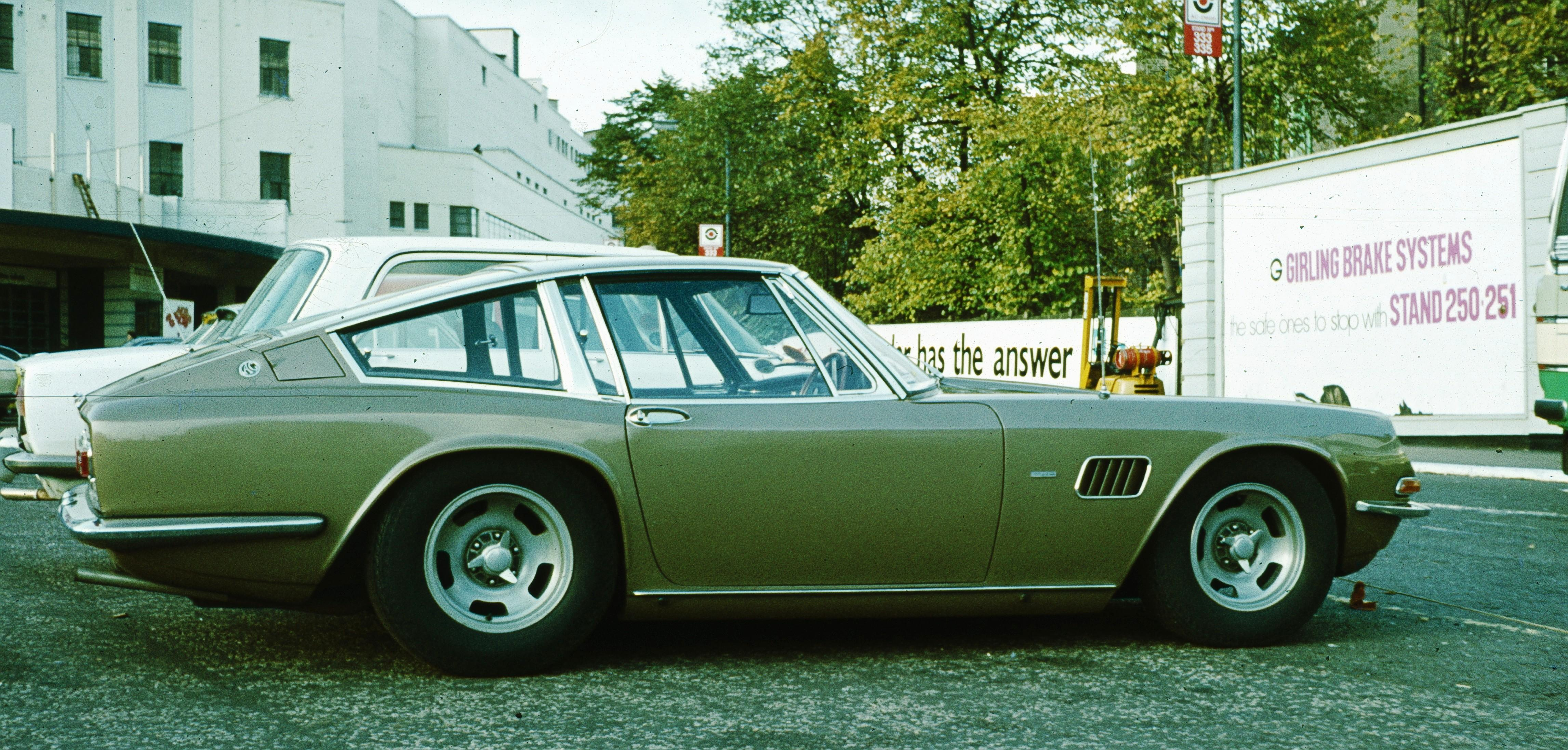 AC Frua at London motor show